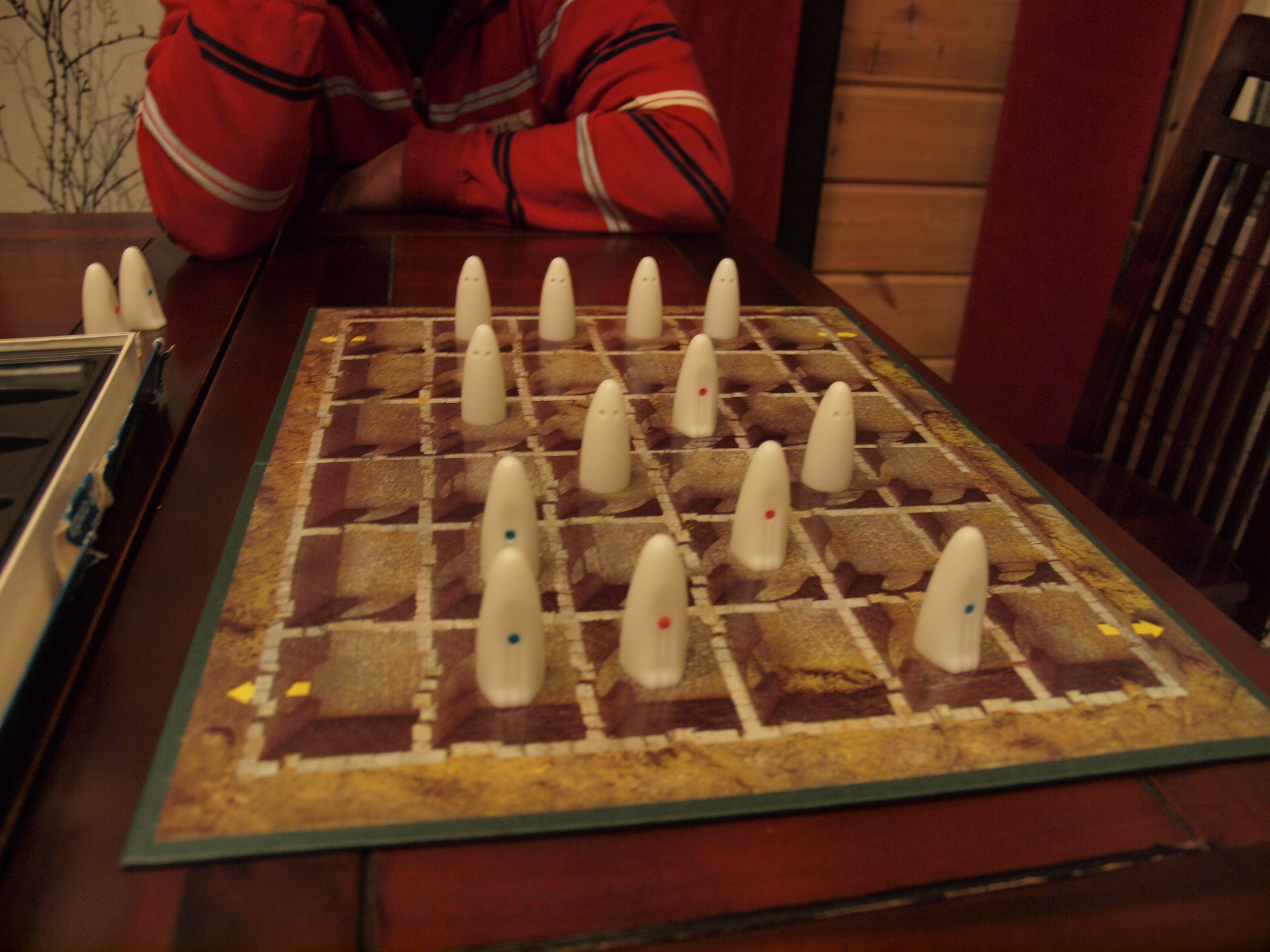 A game of "Ghosts" in the middle of play during a board game weekend in Hämeenlinna, Finland.